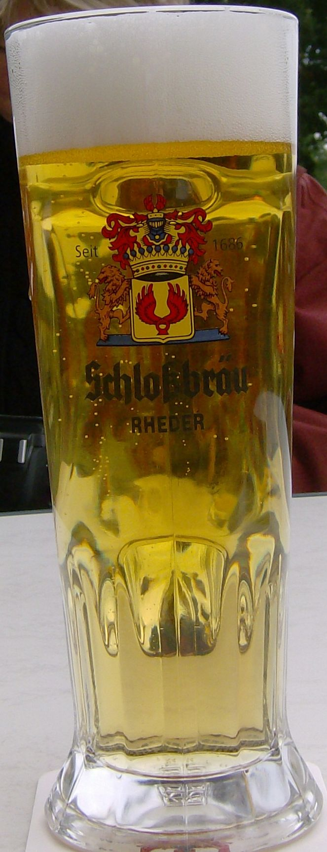 Beer in glas of the brand Schloßbräu Rheder Pils, Germany